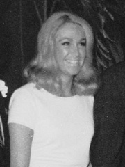 Joan Bennett Kennedy in the 1960s